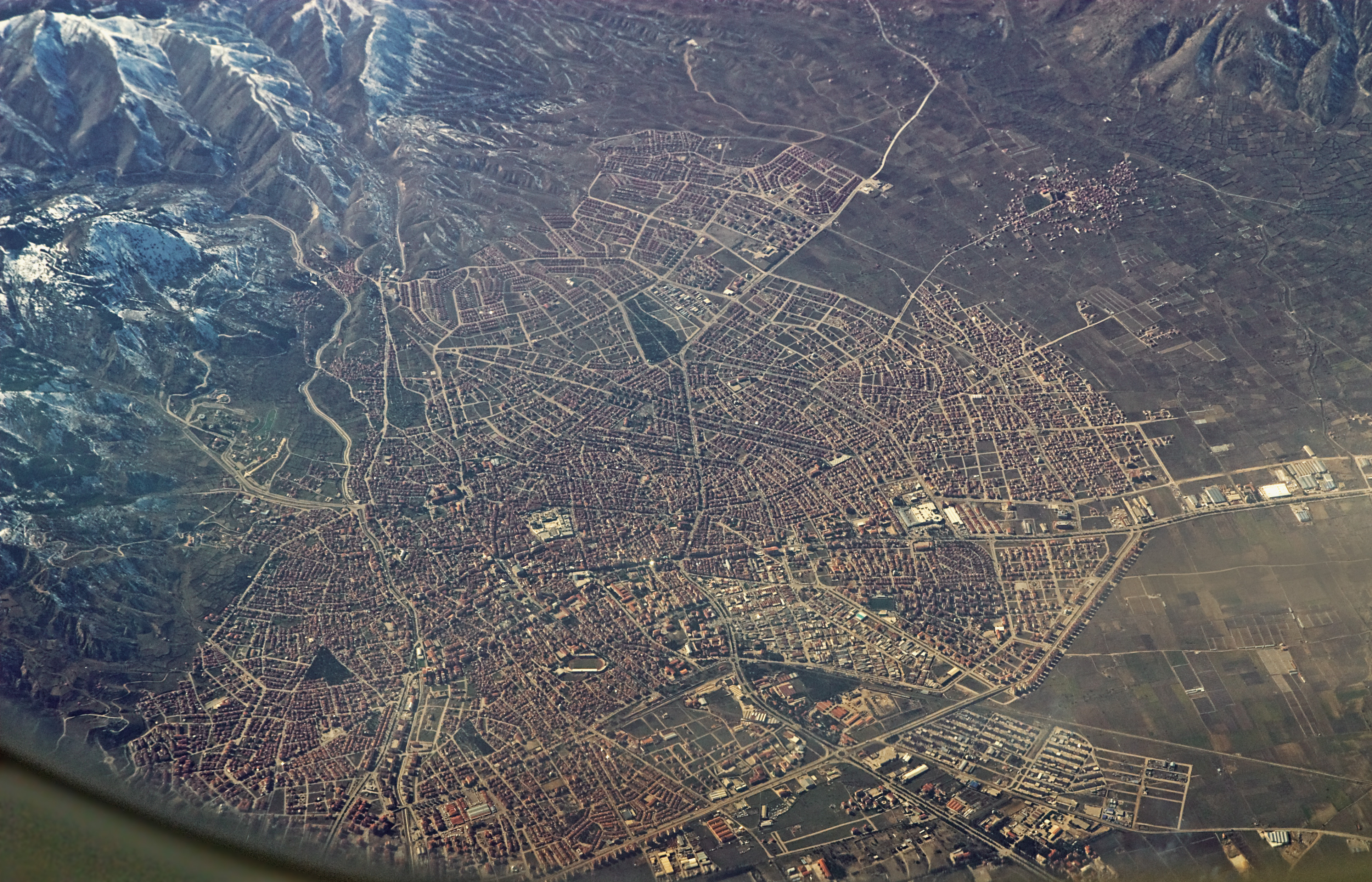 Isparta from the air (February 2011)